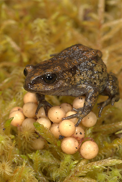 Bryophryne cophites